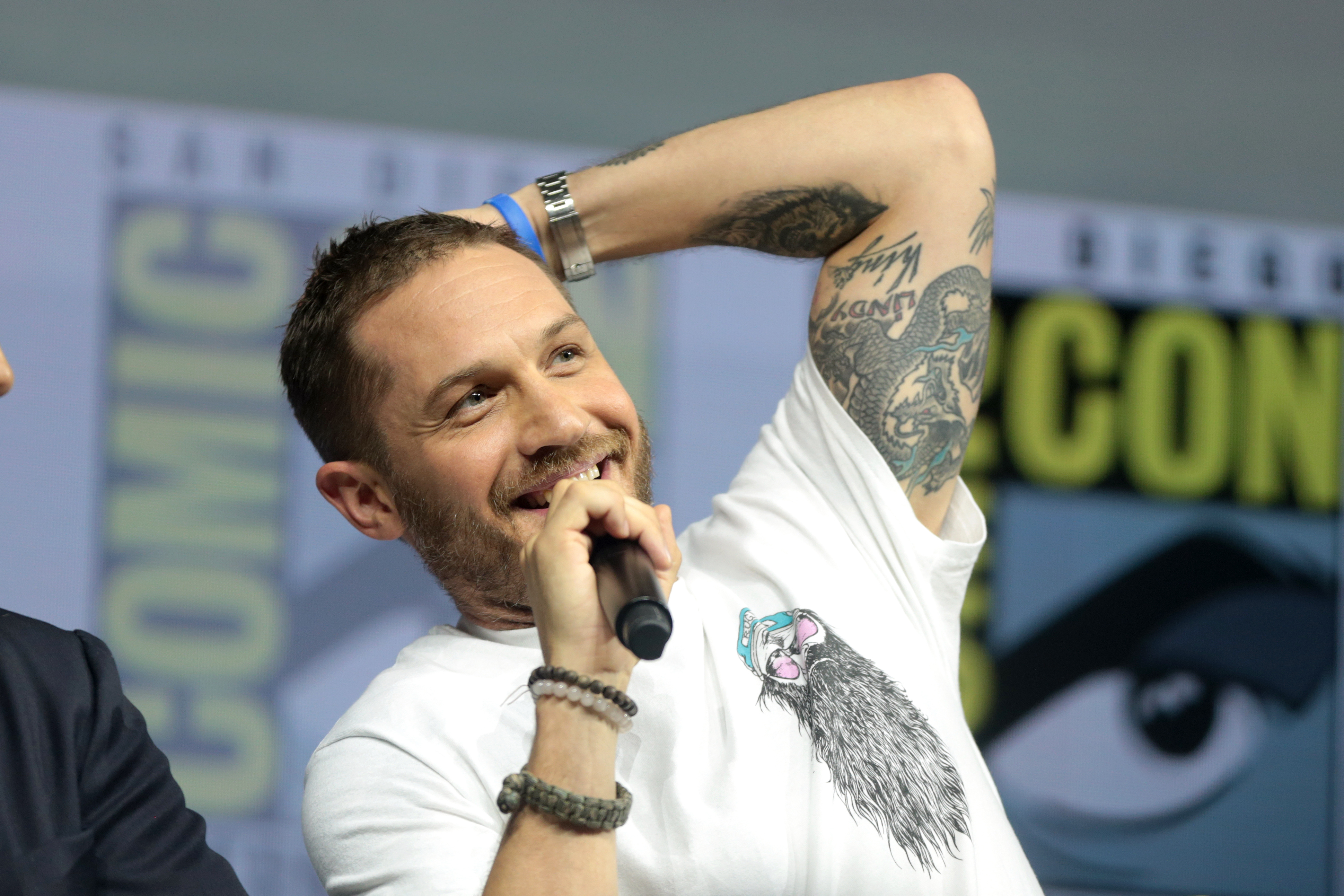 Tom Hardy speaking at the 2018 San Diego Comic Con International, for "Venom", at the San Diego Convention Center in San Diego, California.